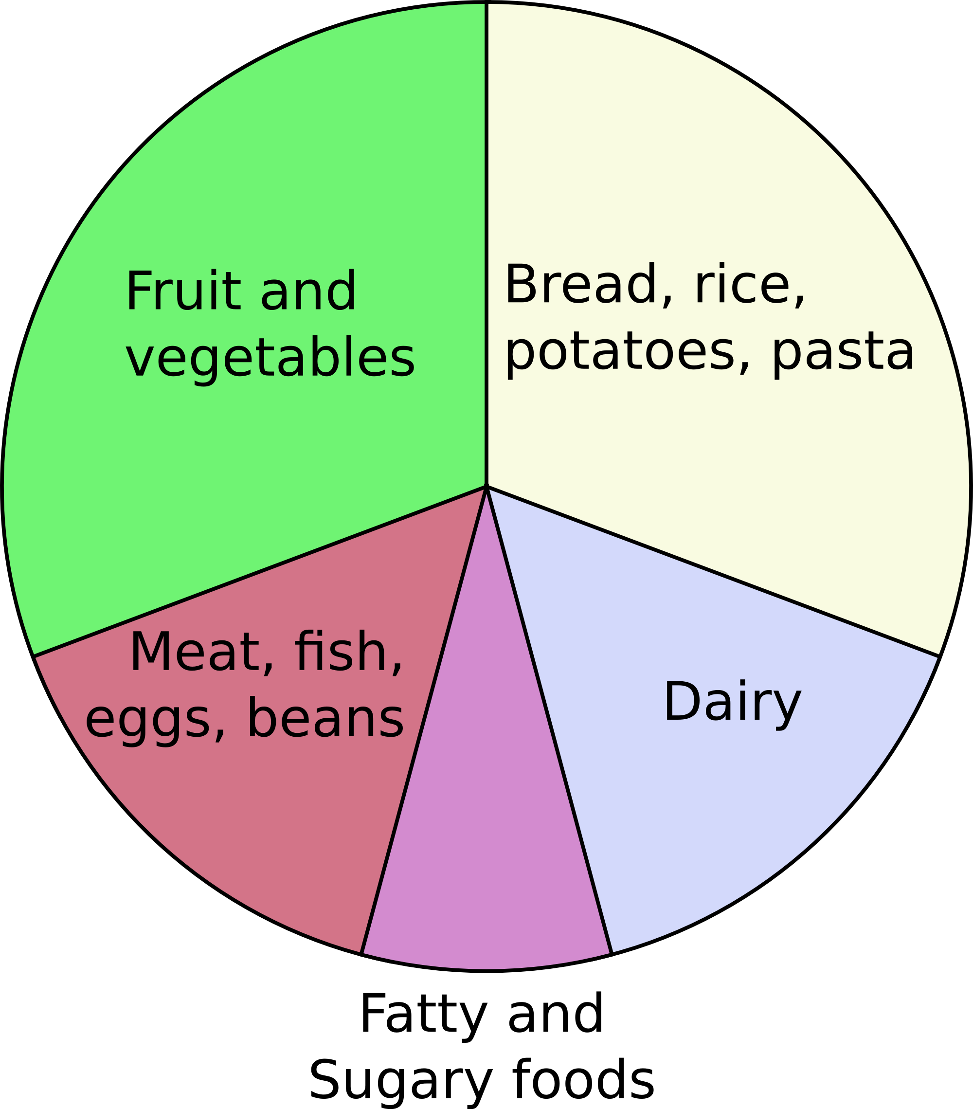 The Eatwell Plate is a pictorial summary of the main food groups and their recommended proportions for a healthy diet. It is the United Kingdom's food standard agency's method for illustrating dietary advice.